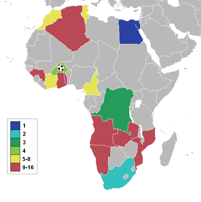 Countries positions in the African Cup of Nations 1st 2nd 3rd 4th 5th-8th 9th-16th Football denotes host nation